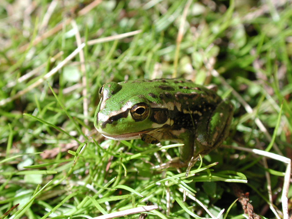 Close-up of juvenile Southern Bell Frog at Arohaki Lagoon in Whirinaki Forest Park near Rotorua, New Zealand. The frog is about 2cm long.